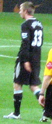 Michael Johnson. Image cropped from original from flickr.